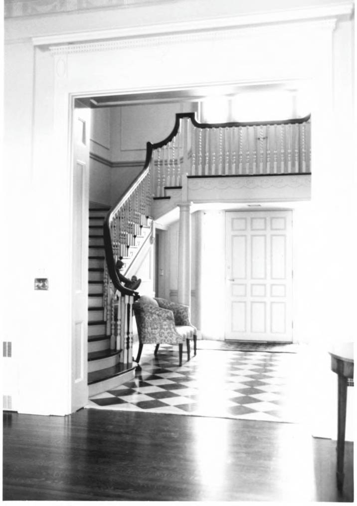 Entry of Boxhill (Louisville) mansion.